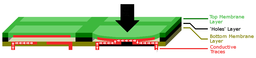 Stylised diagram of membrane keyboard